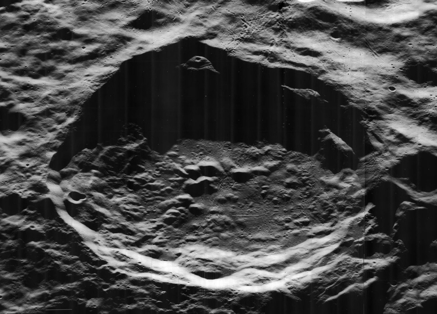 Oblique view of Von Neumann crater, on the far side of the moon, facing west.